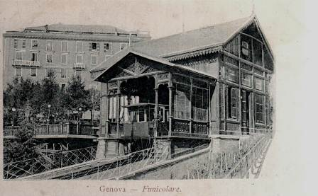 Sant'Anna funicular